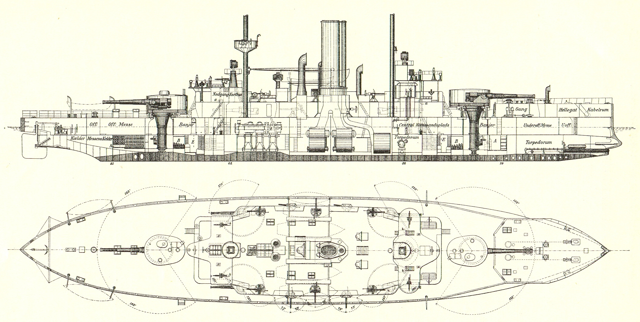 Plans of the Danish coastal defence ship Herluf Trolle, launched 1899.